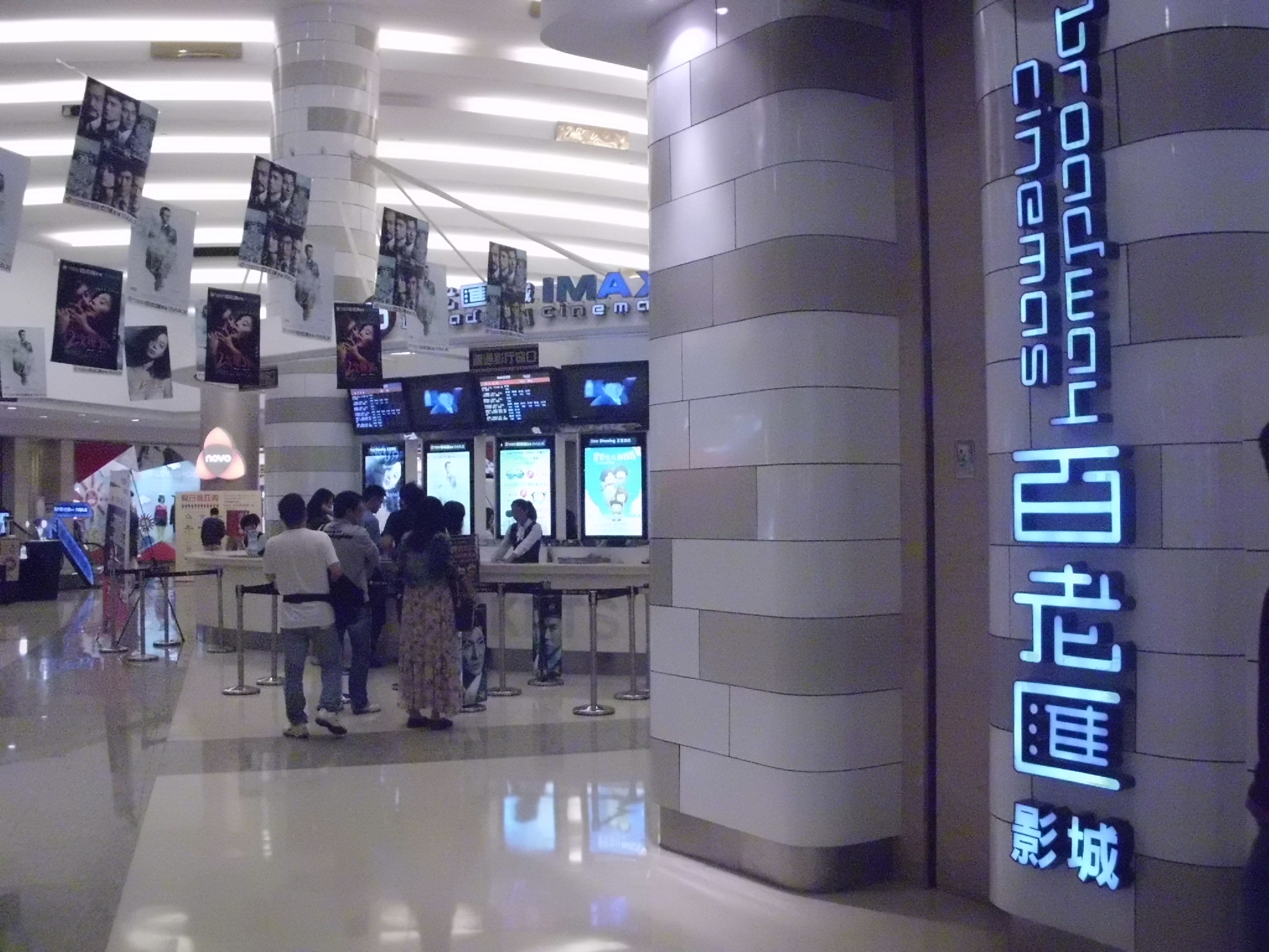 Hangzhou Broadway Cinema